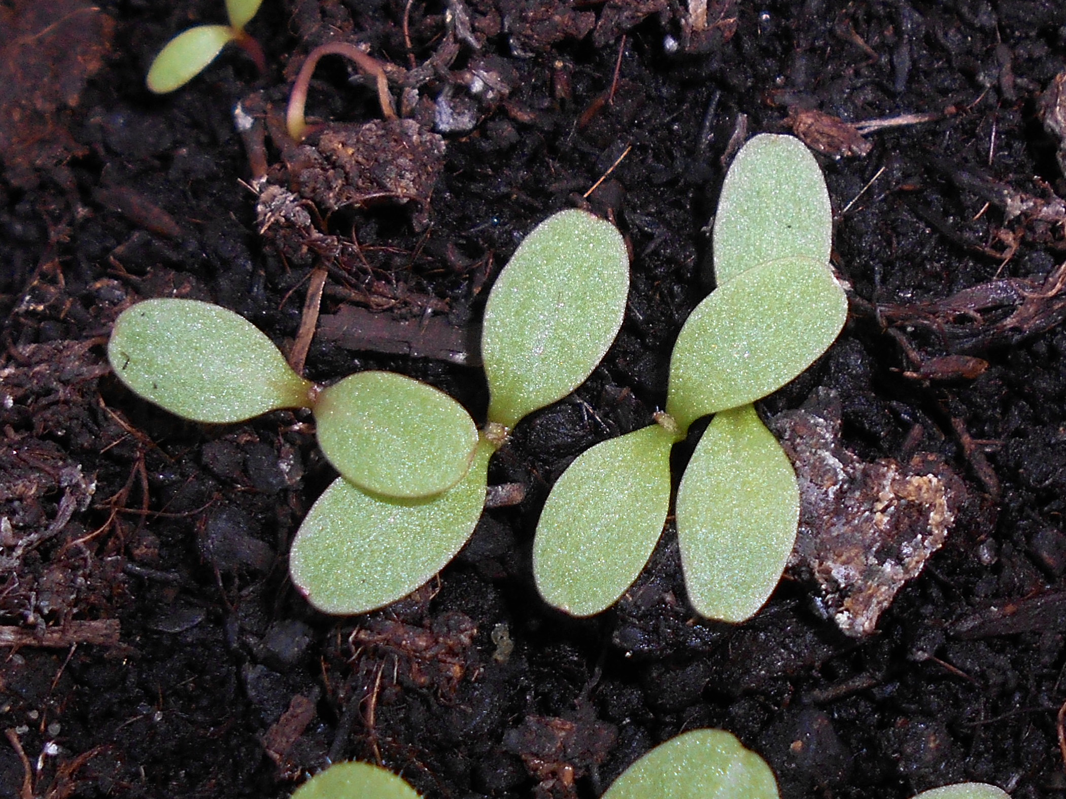 Picris hieracioides seedlings.